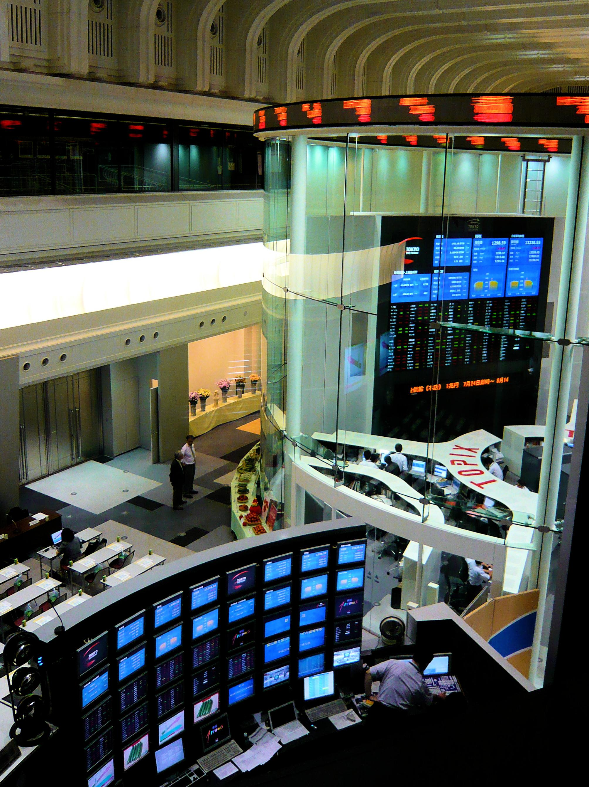 Tosho Arrows in Tokyo stock exchange